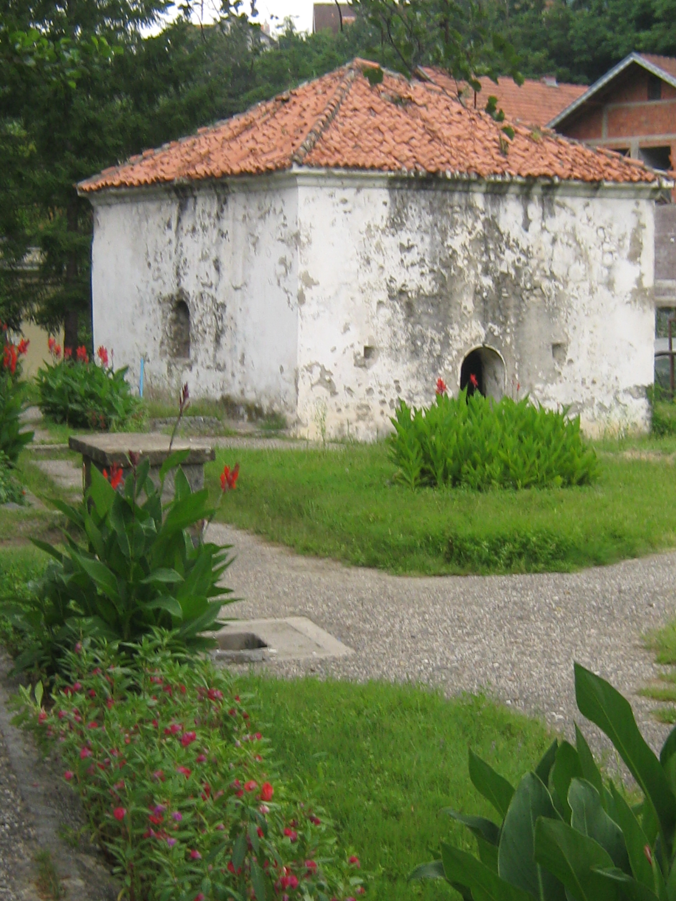 Old ottoman bathhouse in Jošanička Banja.